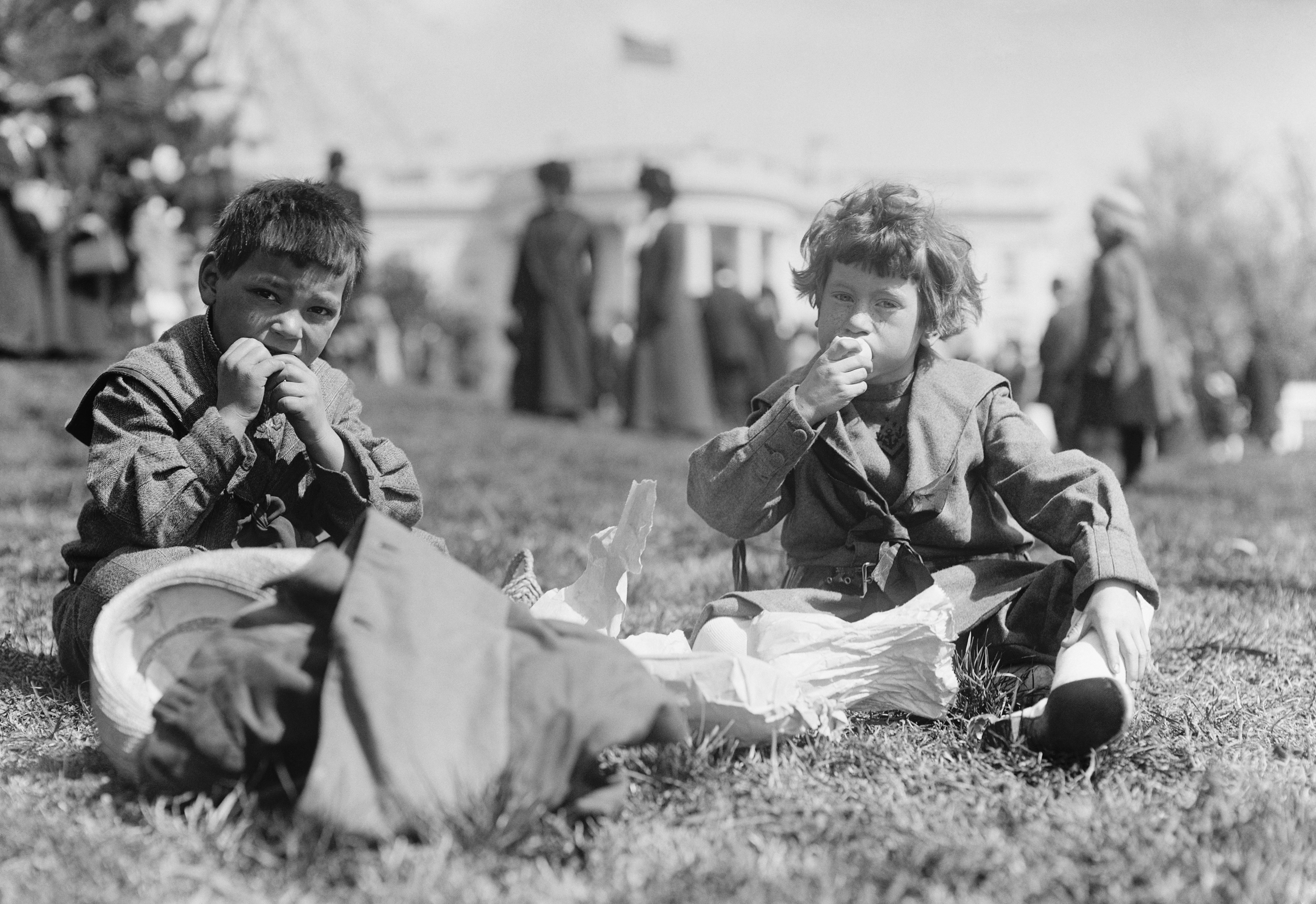 "EASTER EGG ROLLING, WHITE HOUSE" "1 negative : glass ; 5 x 7 in. or smaller"